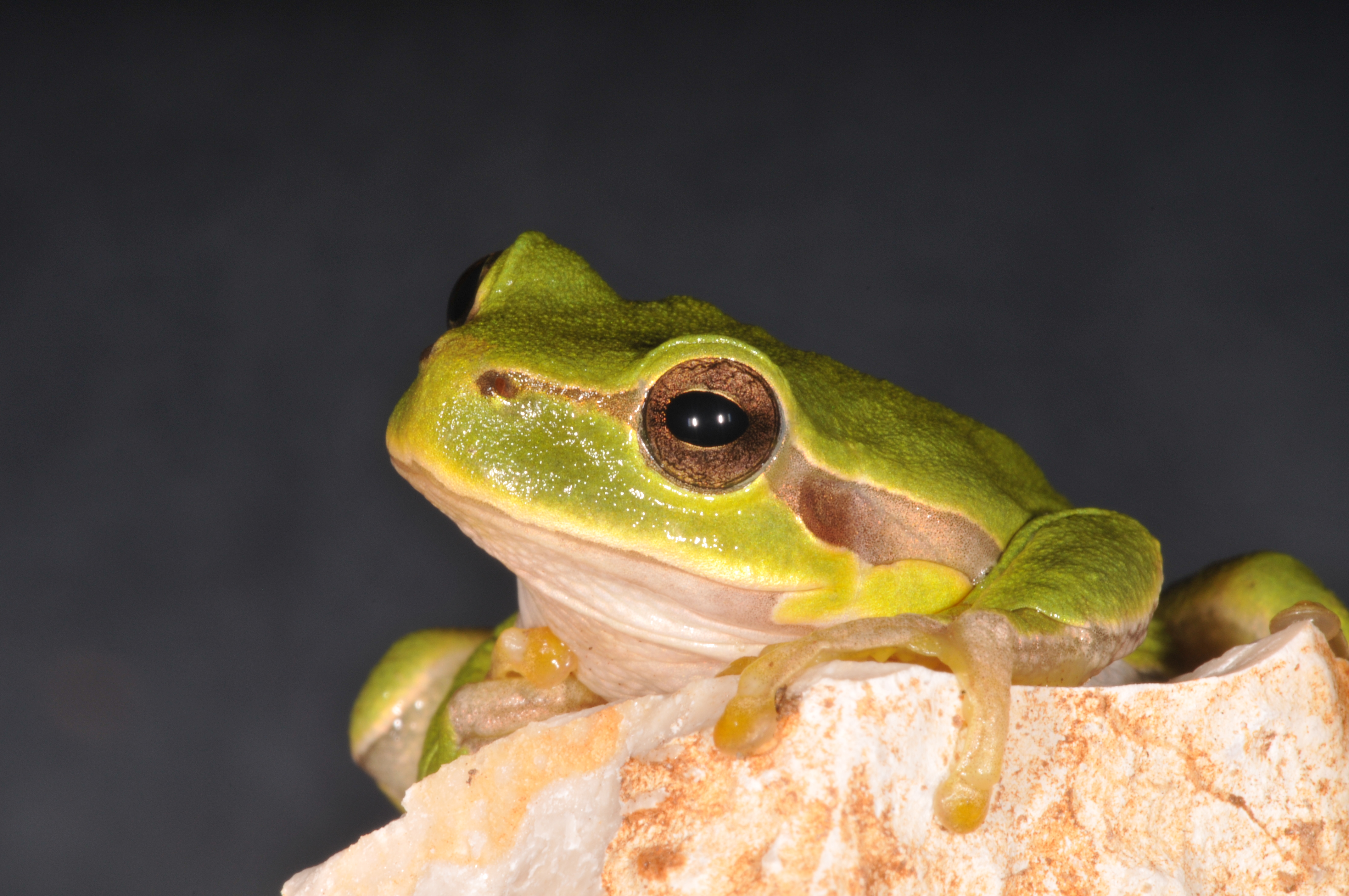 Hyla arborea (det. Fice), Croatia, Istria, Brseč 15 km south Lovran, 45°10`23,80``N 14°13`37,25``E